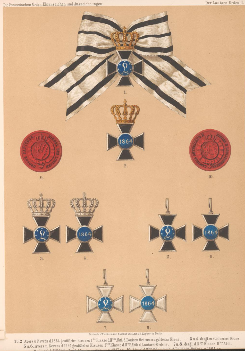 The Prussian Louise Order